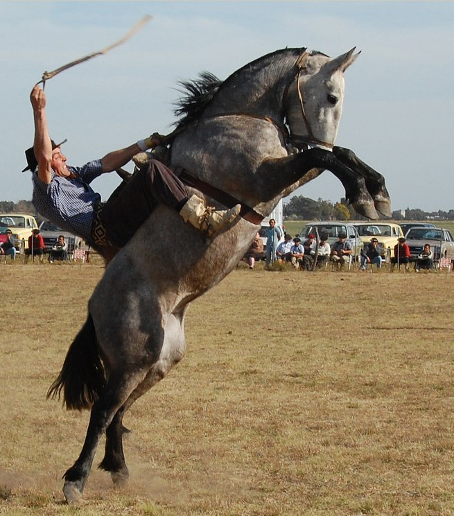 Jineteda gaucha. Argentina.